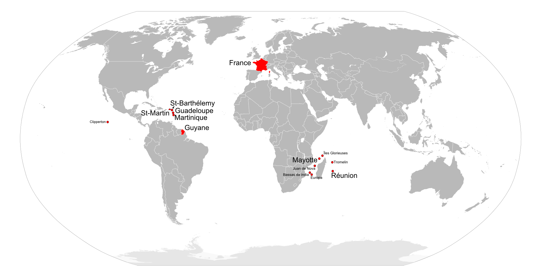 In red, where are the postage stamps of France are used on posted mail between January 1986 (Saint-Pierre-et-Miquelon's philatelic autonomy) andJanuary 1997 (Mayotte's philatelic autonomy). Big size names : territories with permanent population. Small size names : territories with non-permanent population, mainly scienfitic (used of stamps of France quite hypothetical, but not impossible (covers reproduced in Pierre Couesnon's article, "Les îles éparses : un étrange rattachement aux TAAF", Timbres magazine 61, October 2005, pages 73-76). Created from the 9 January 2007 04:37 version of Image:BlankMap-World6.svg.